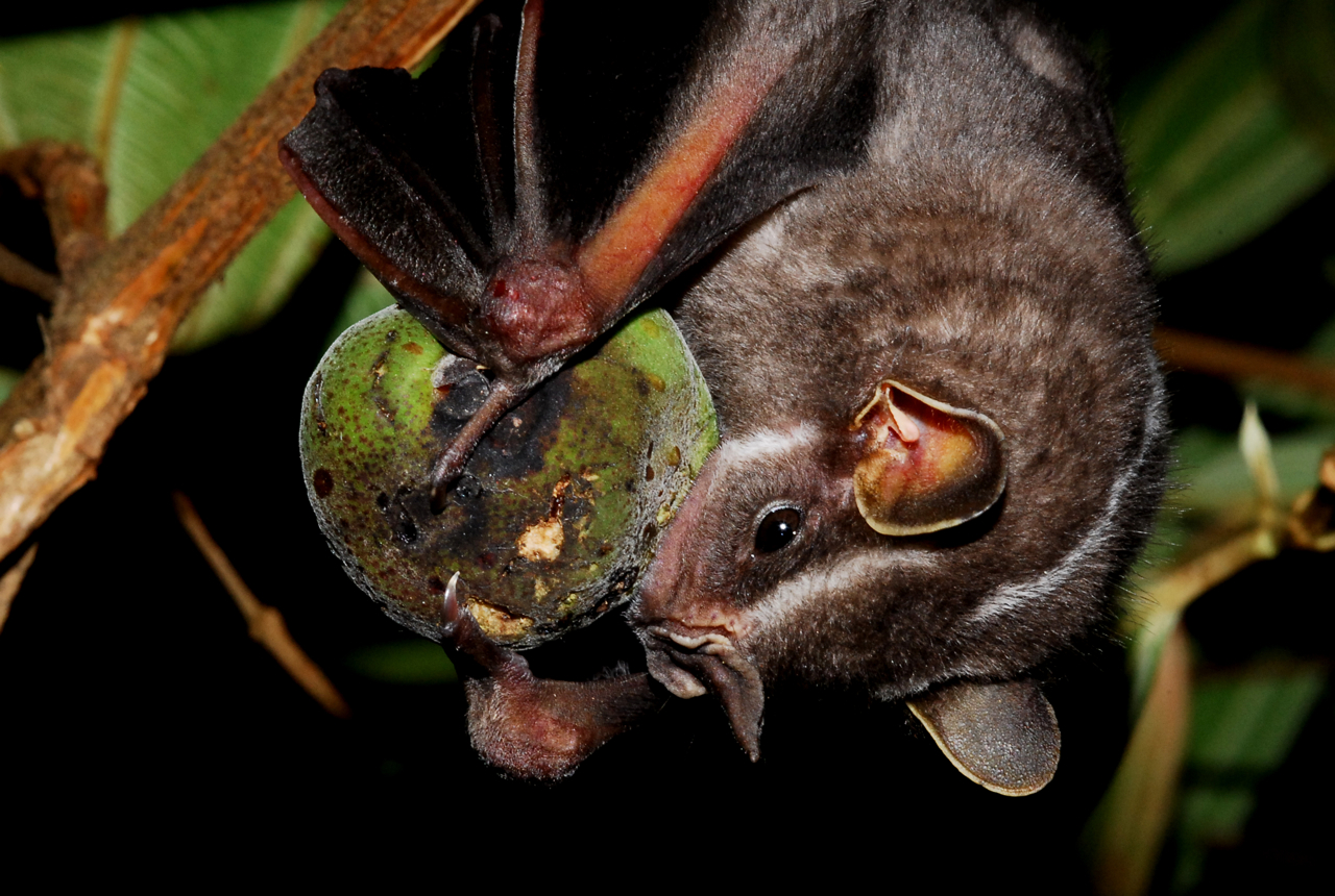 A bat of the species Platyrrhinus lineatus feeding on a fruit of the species Diospyros hispida, in the cerrado reserve of UFSCar, Brazil.